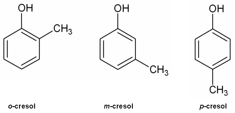 Cresol (structures of ortho-, meta-, para-cresol)